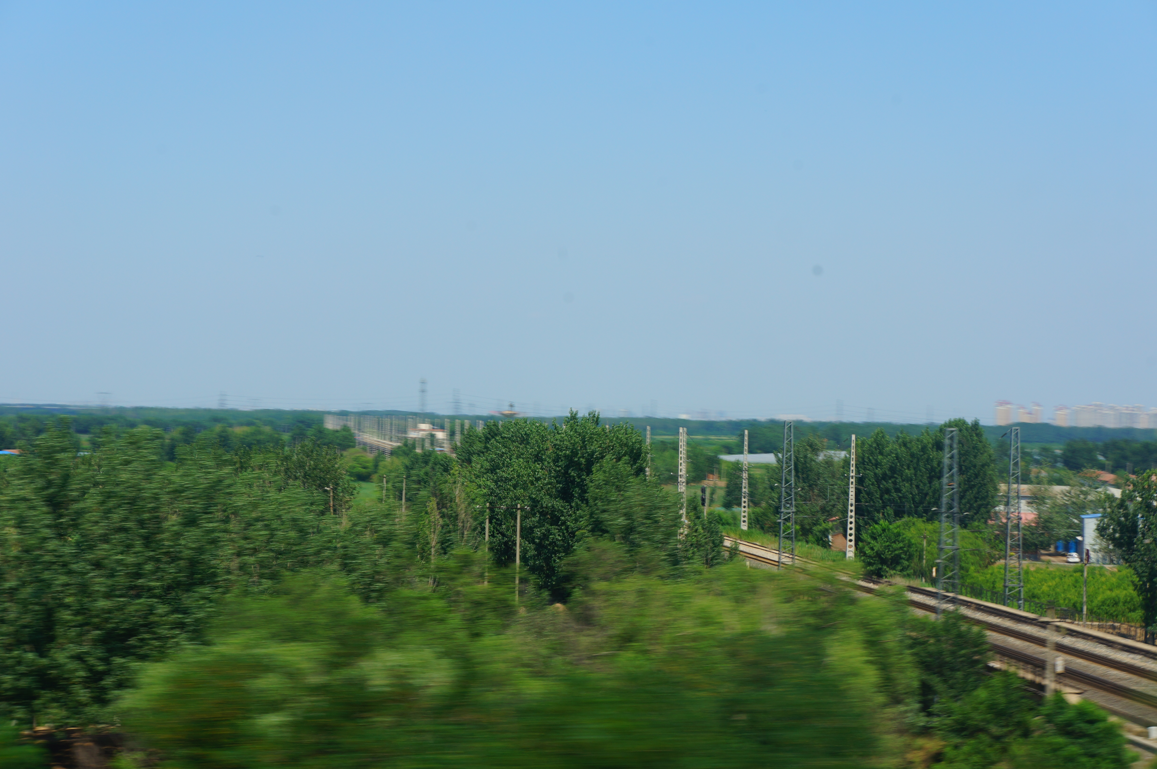 201606 Shuangkou Railway Station